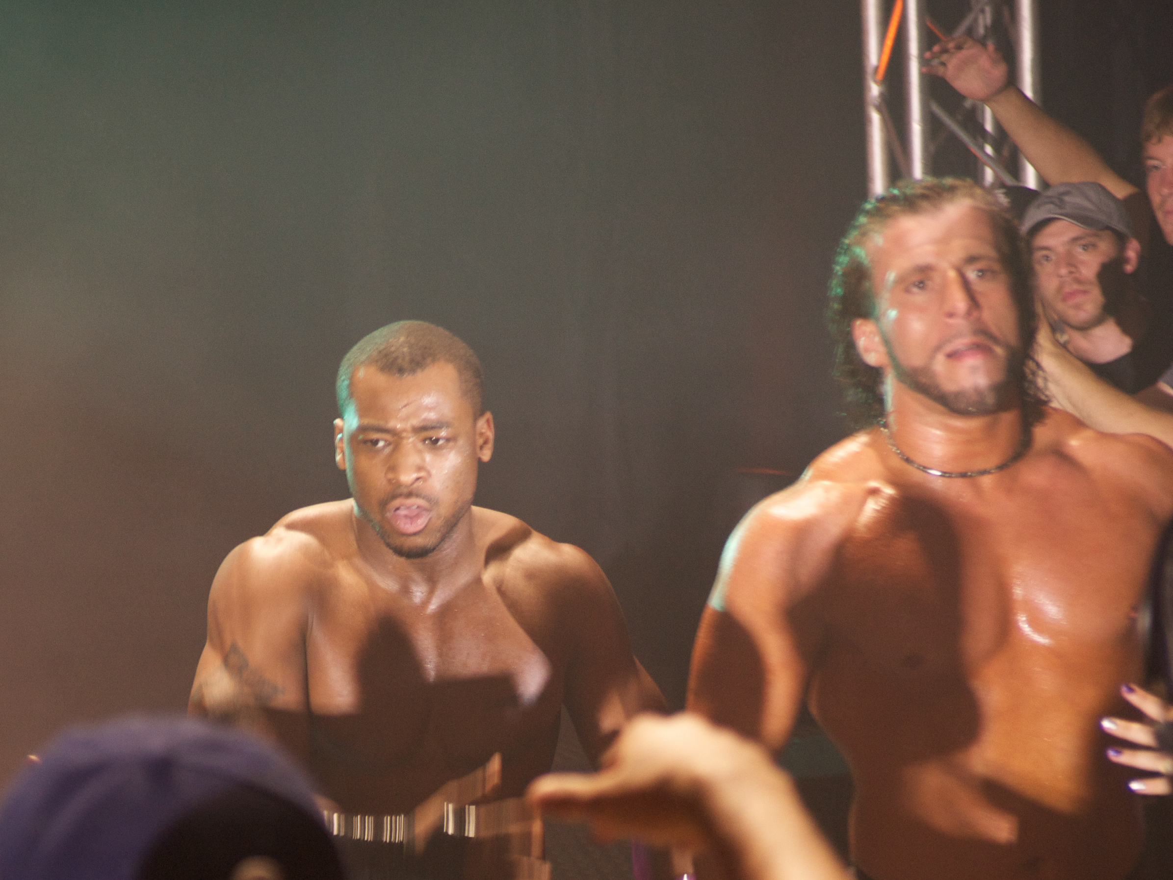 The All Night Xpress (Kenny King, left, and Rhett Titus, right) at a Ring of Honor show in 2011.